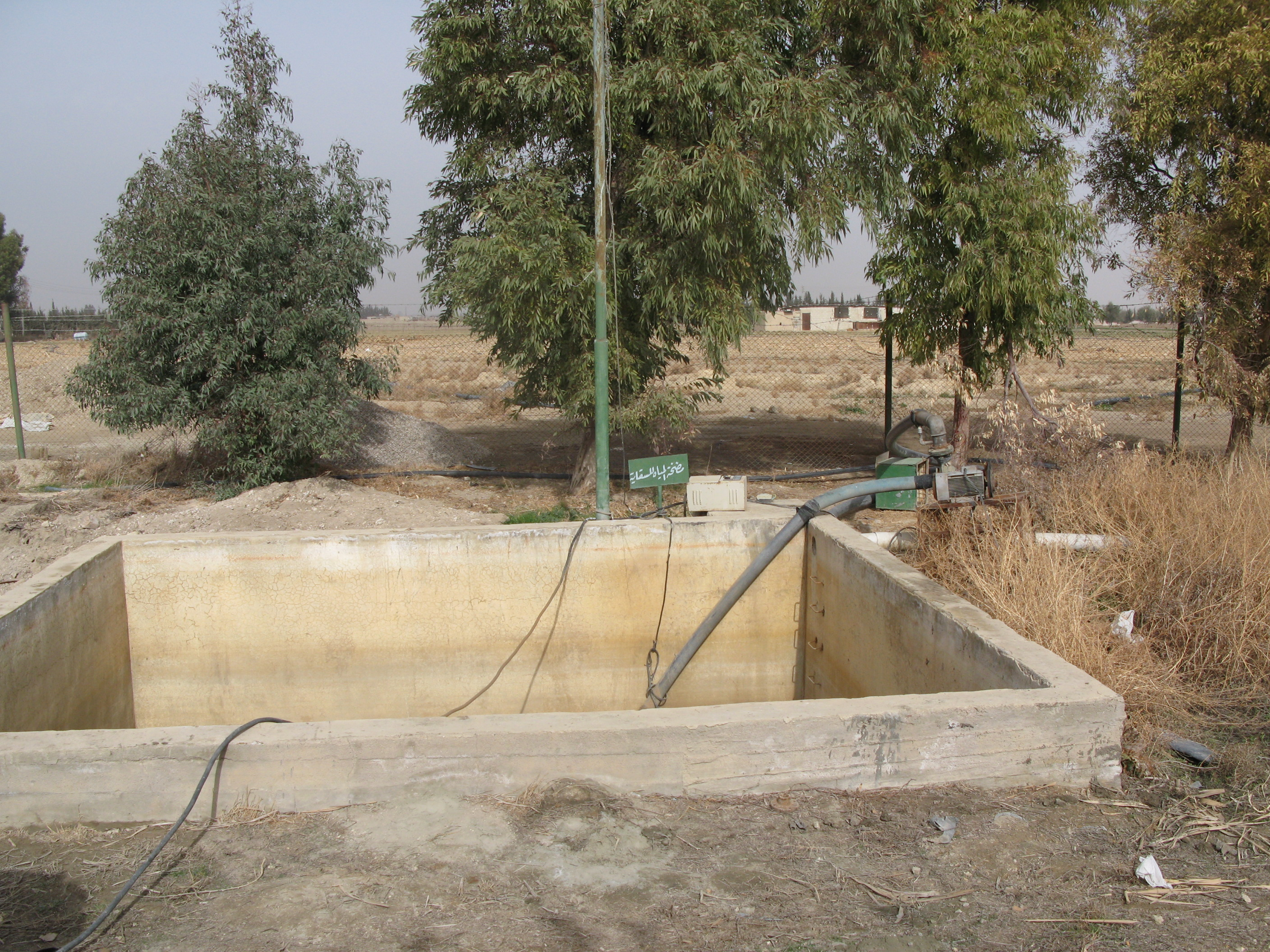 Syria - constructed wetland Haran-Al-Awamied (near Damascus)